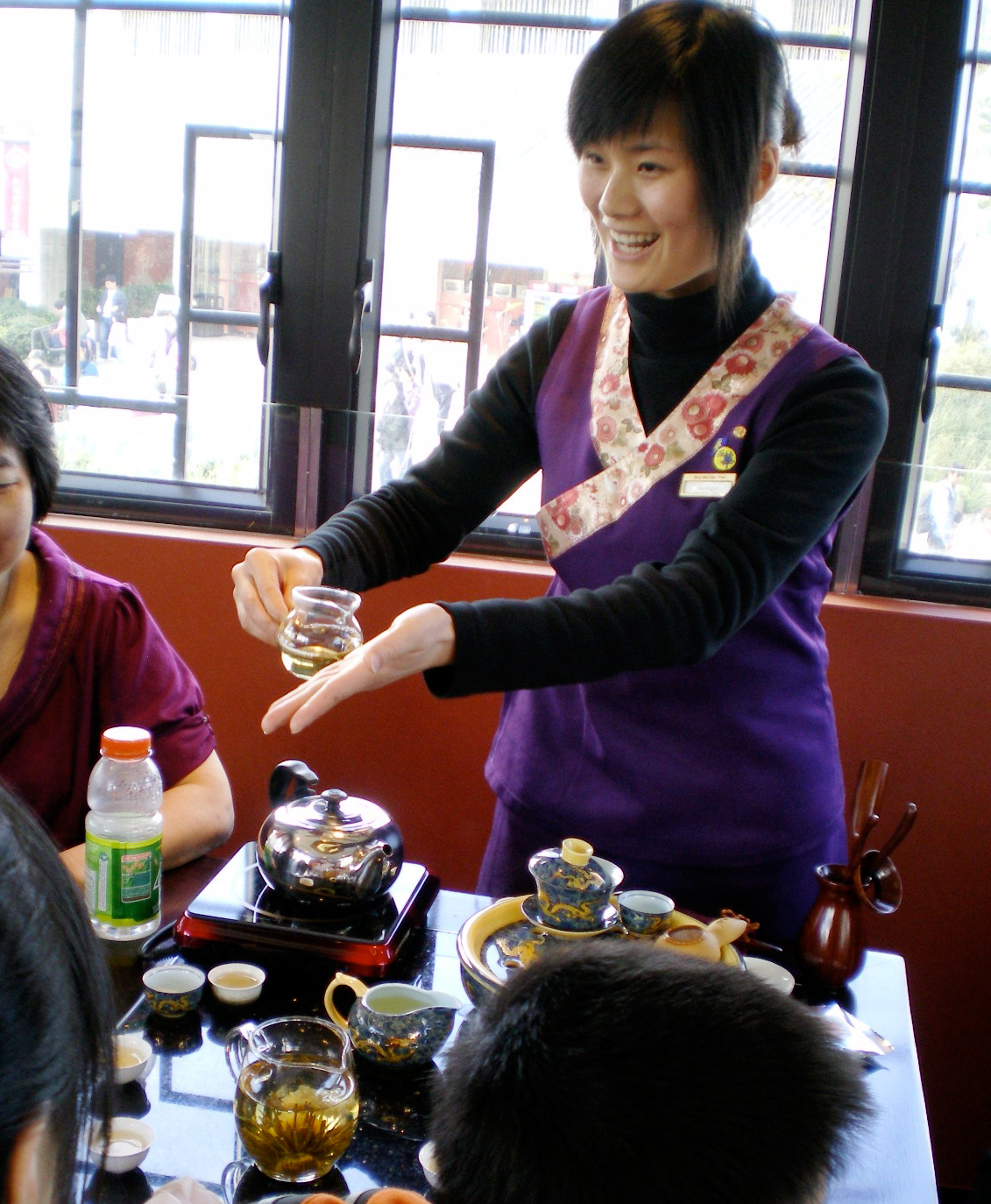 A demonstration of a traditional Chinese tea ceremony at the Ngong Ping Tea House